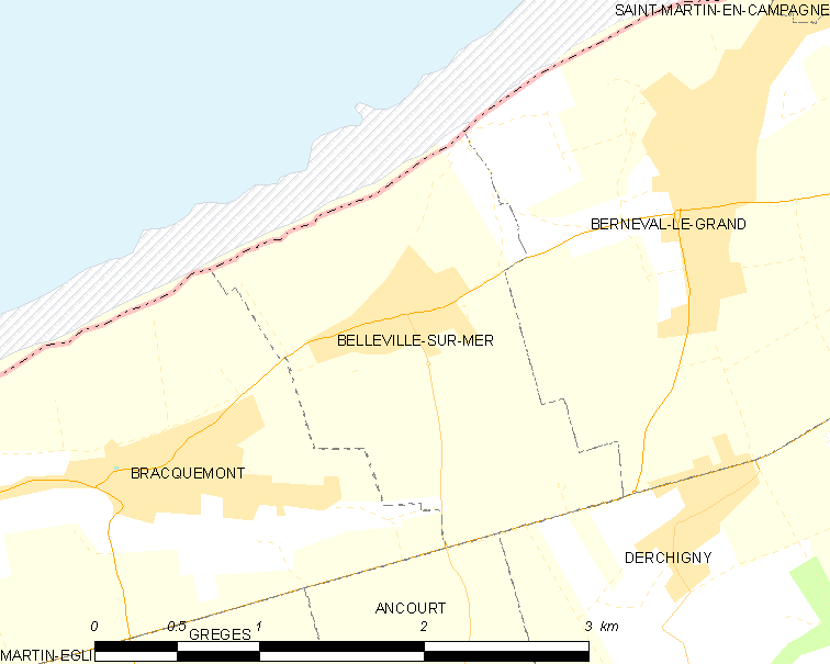 Map of French municipality Belleville-sur-Mer